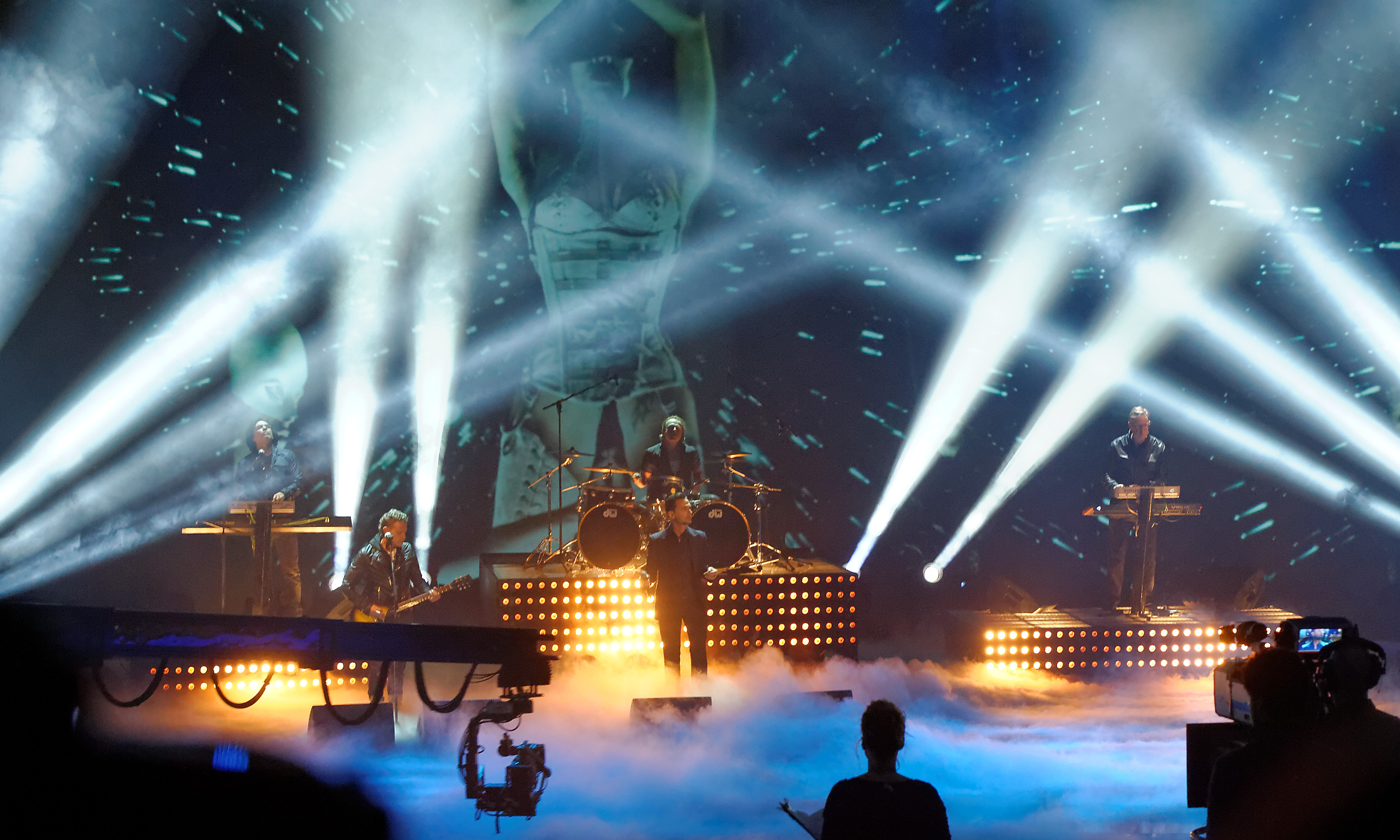 Wetten, dass.. ? am 23. März 2013 in der Stadthalle Wien The making of this document was supported by Wikimedia Austria. Depeche Mode